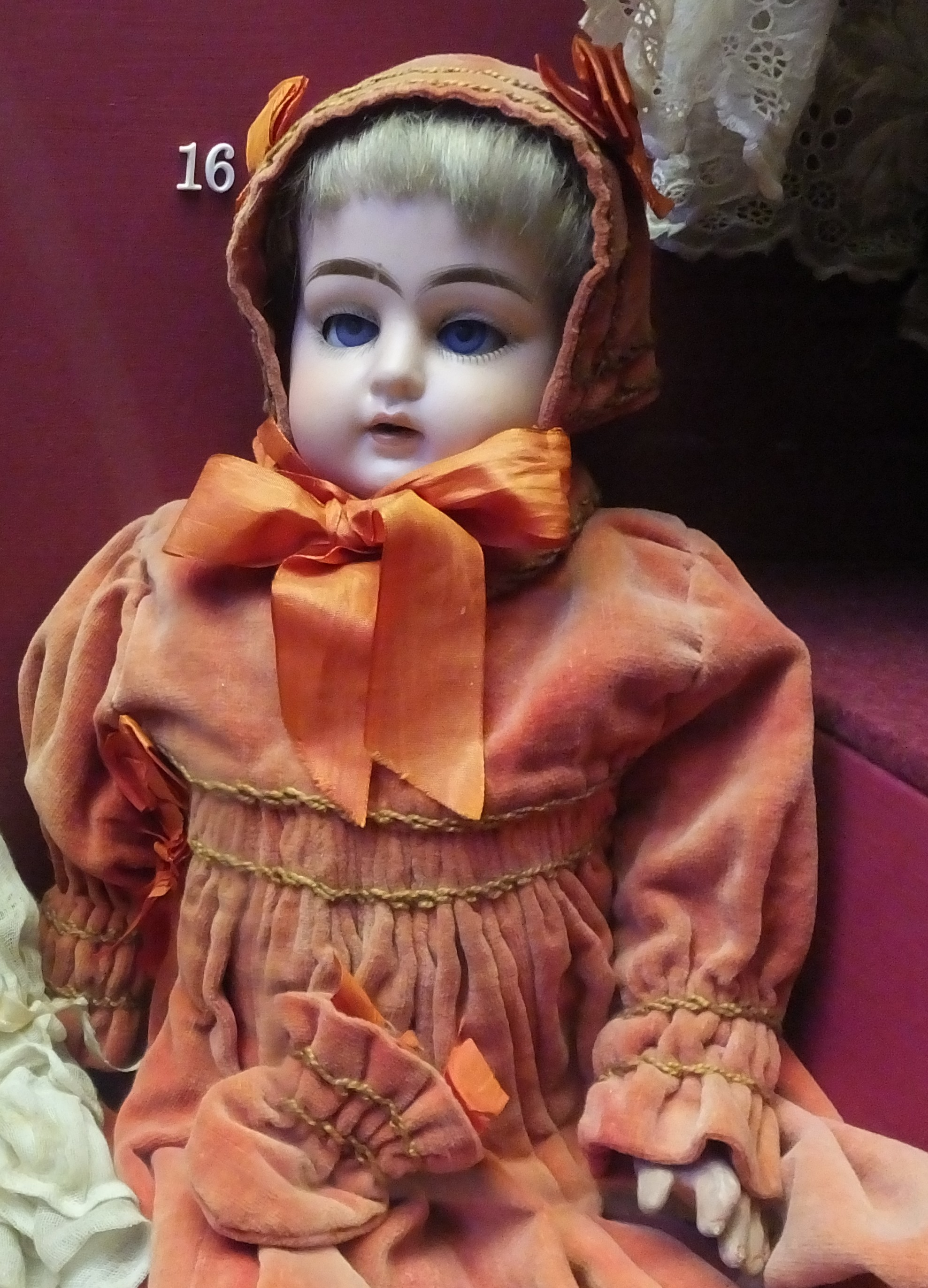 Doll from the collection of the Guildhall Museum in Rochester, Kent. Ernst Heubach